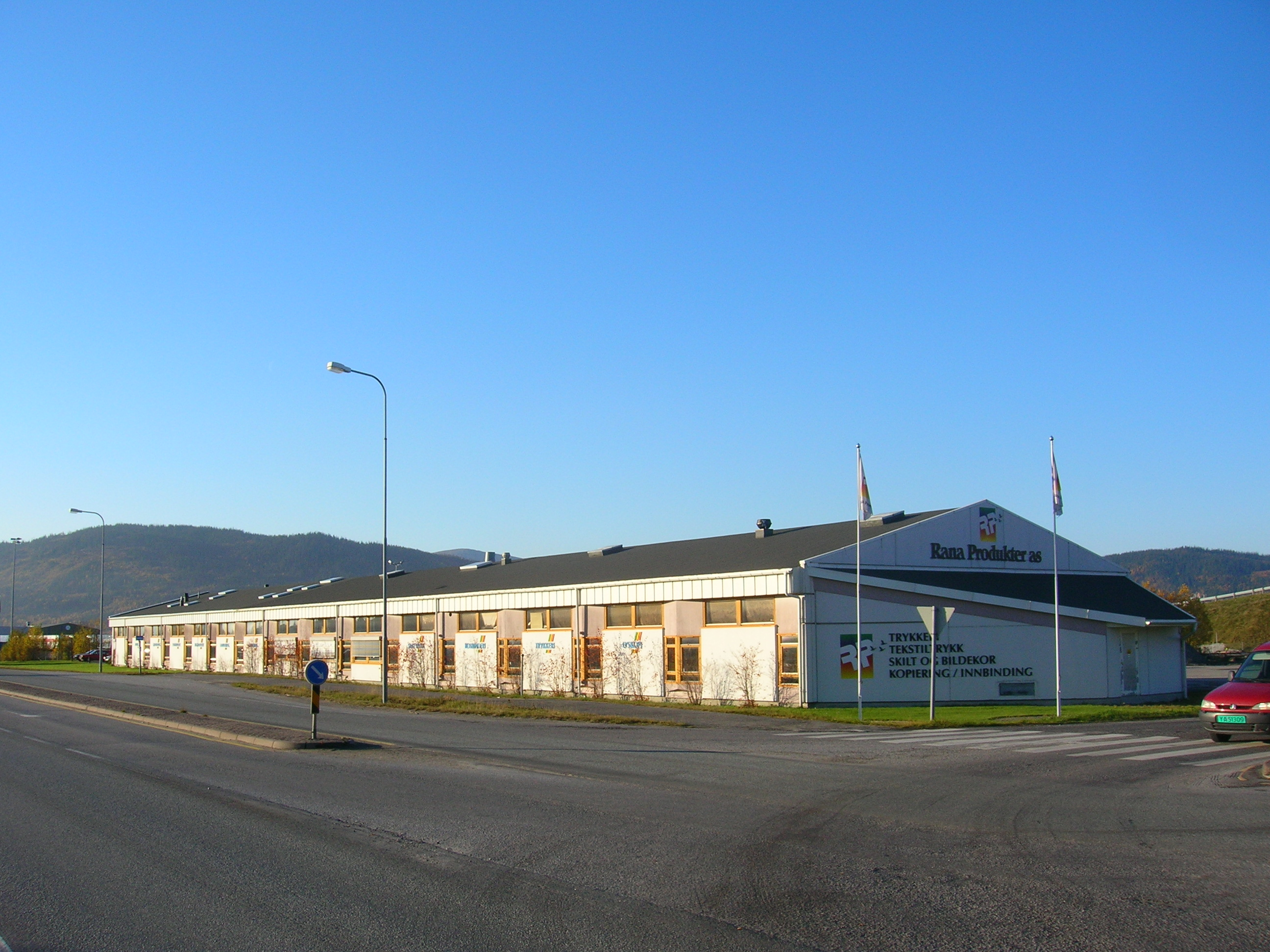 Rana Produkter AS, Mo i Rana, Rana municipality, county of Nordland, Norway, Photo 5 October, 2007 with a Nikon Coolpix 5600 5,1 Megapixel camera.